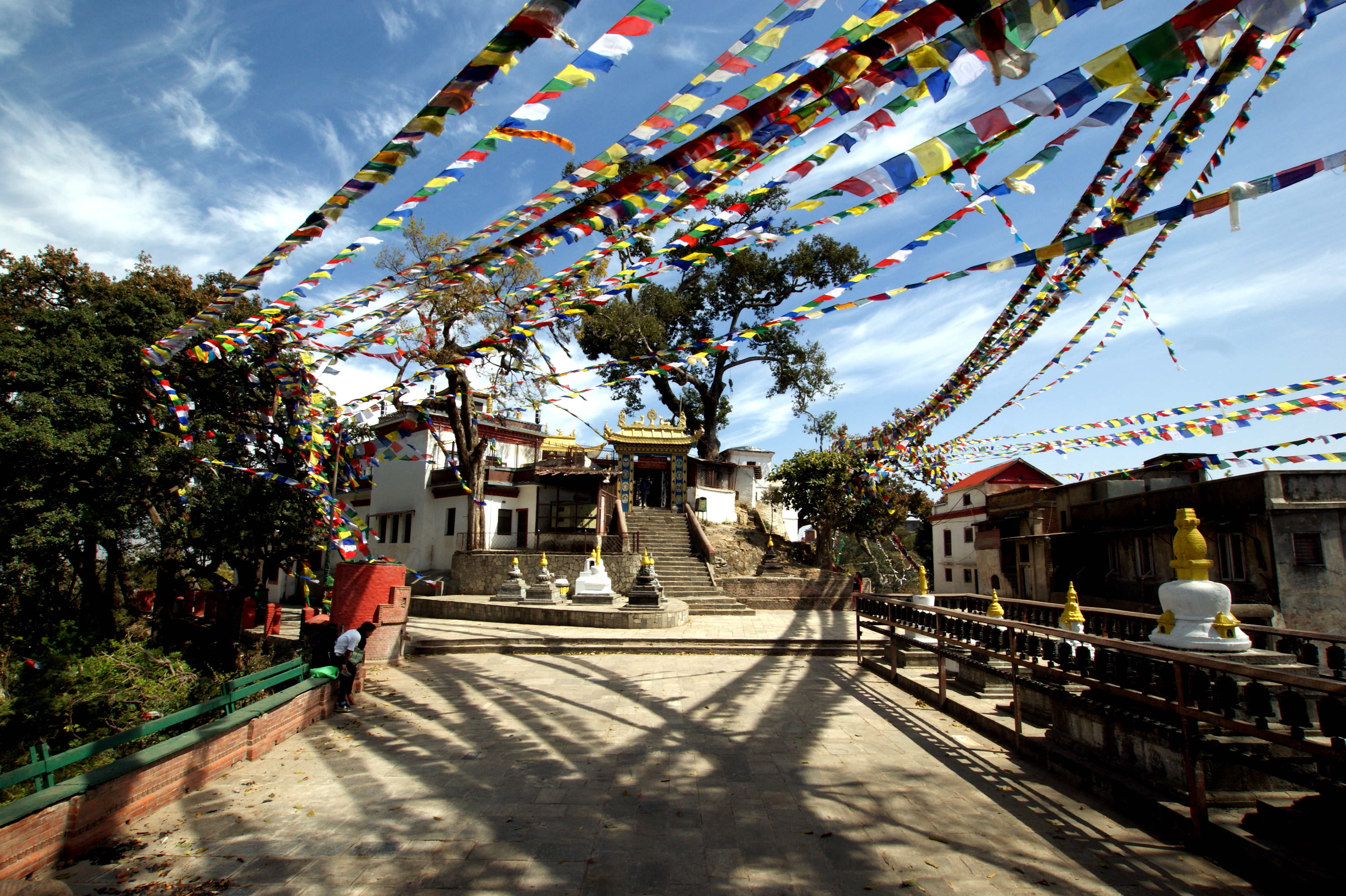 Ananda Kuti Vidyapeth(?, not sure though)